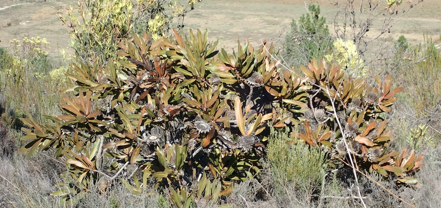 Strapleaf Sugarbush (Protea lorifolia)